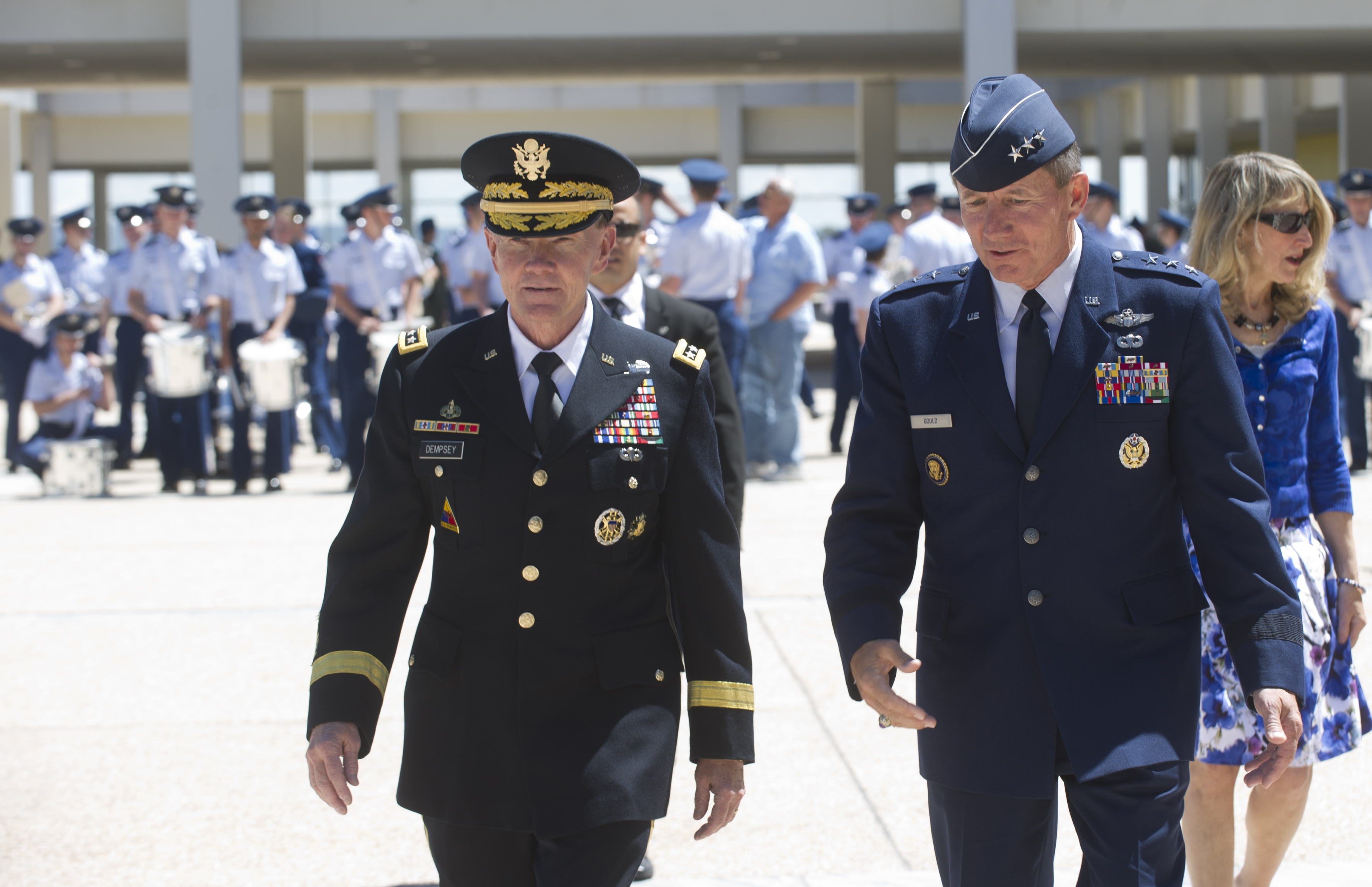 Army Gen. Martin E. Dempsey, chairman of the Joint Chiefs of Staff, walks with Air Force Lt. Gen. Michael C. Gould, superintendent of the Air Force Academy, in Colorado Springs, Colo., April 30, 2012. DOD photo by D. Myles Cullen